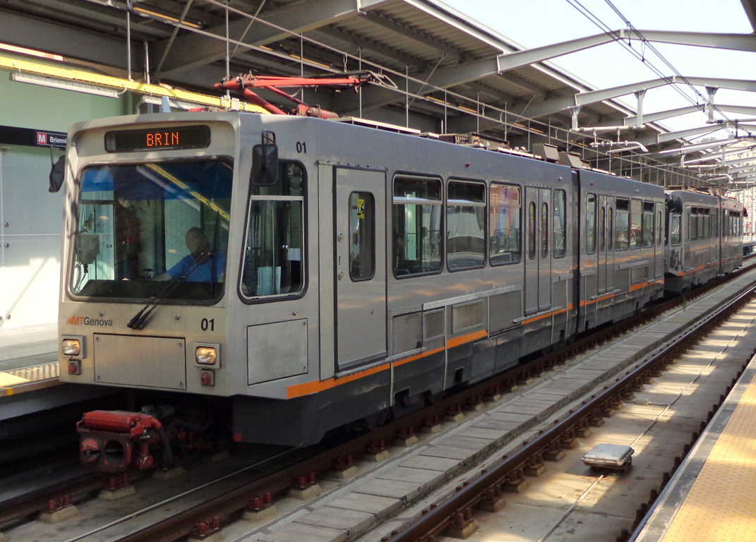 Railcar n. 01 of Genoa metro in Brignole station.